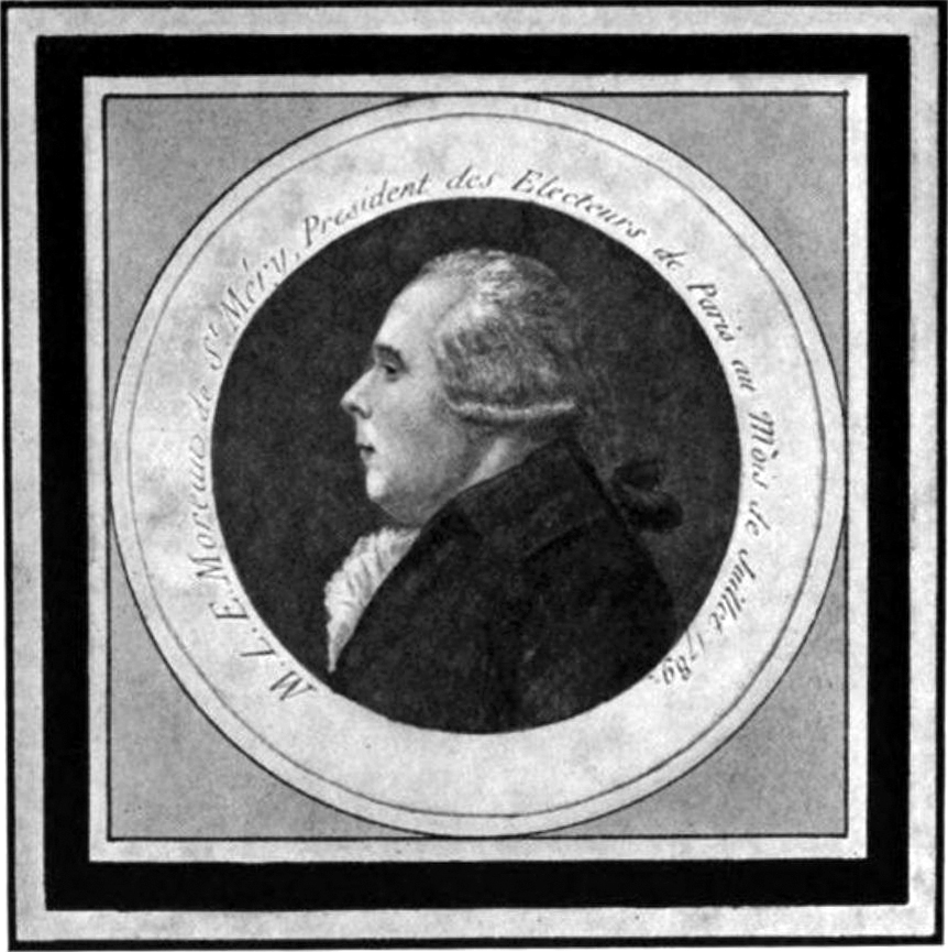 M. L. E. Moreau de Saint-Méry, President des Electeurs de Paris au Mois de Juillet 1789.